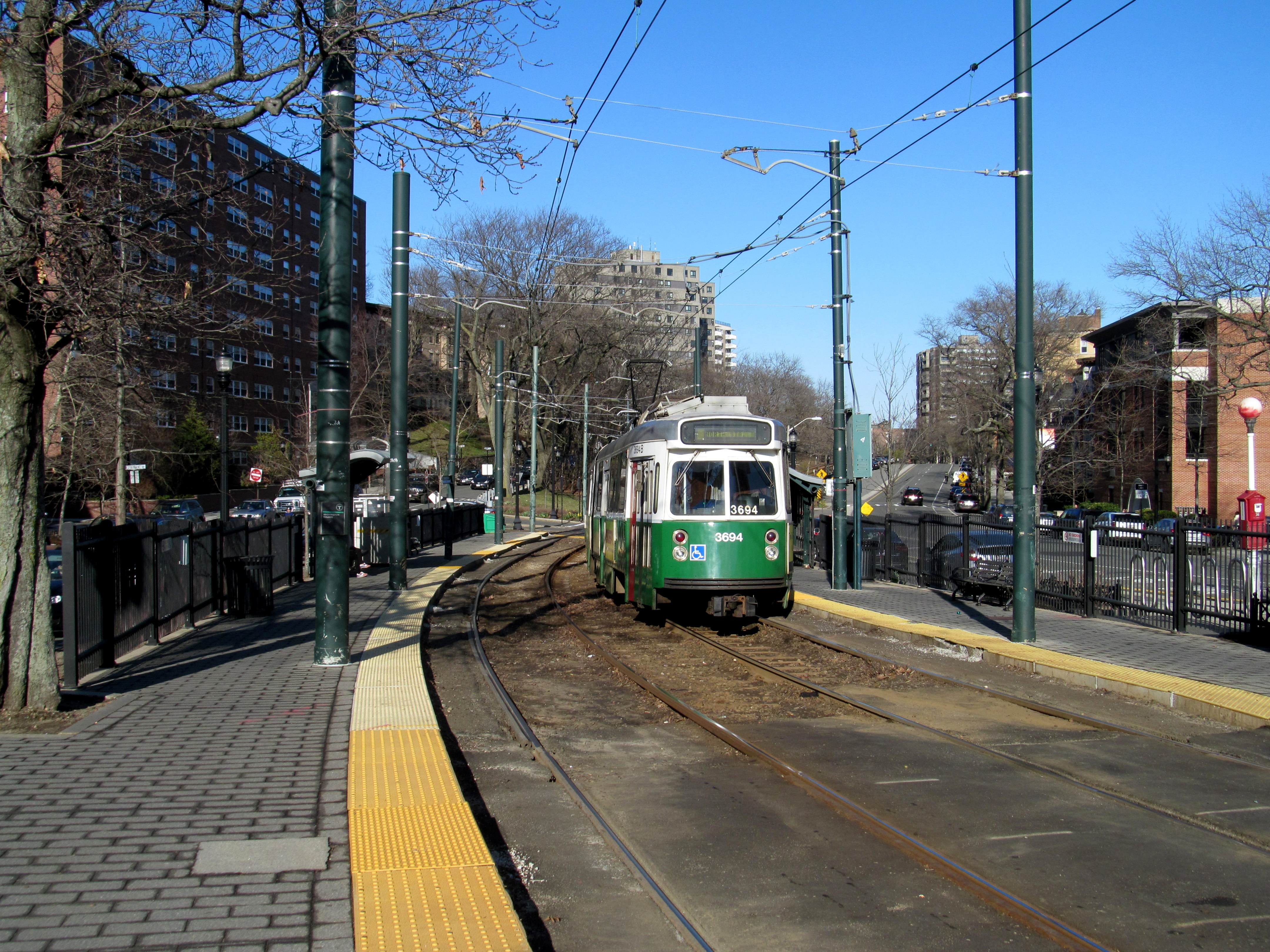 An inbound train at Washington Square station in April 2016